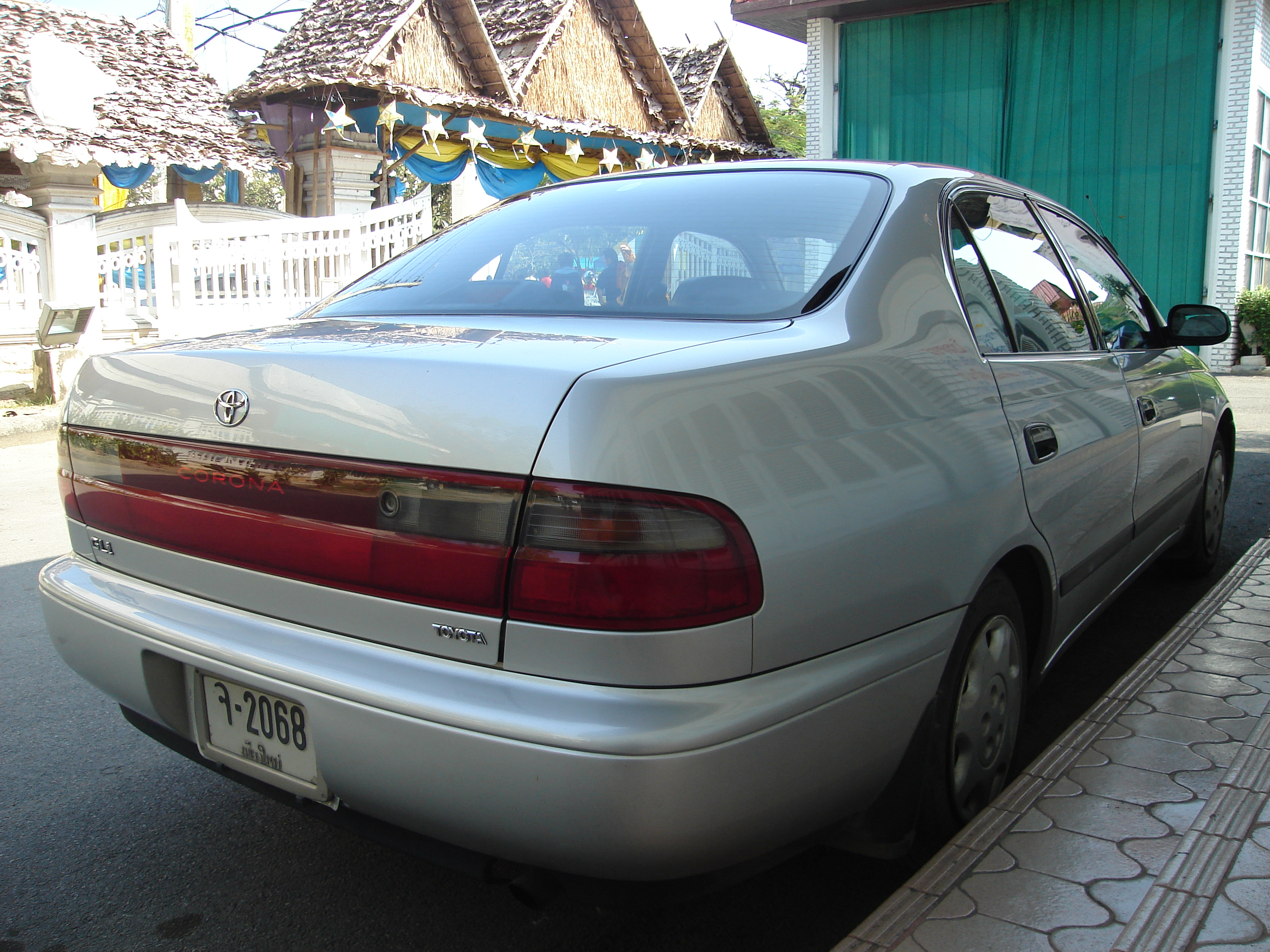 Toyota Corona -- Chiangmai, Thailand